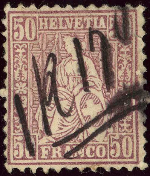 50 c Helvetia issue 1867, pen cancelled. Michel N°35.